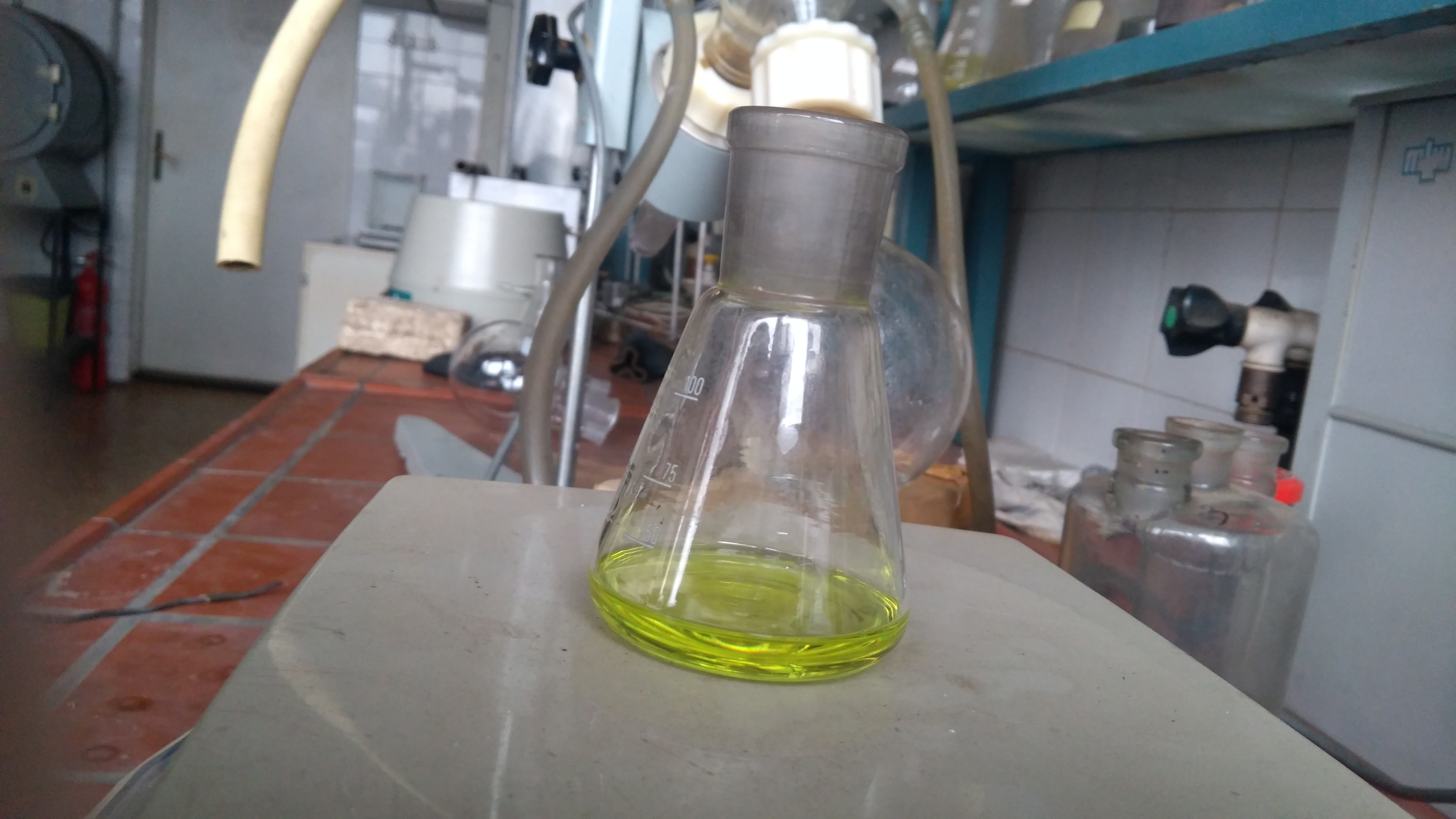 distilled flask of l-pac produced by biotransformation of benzaldehyde